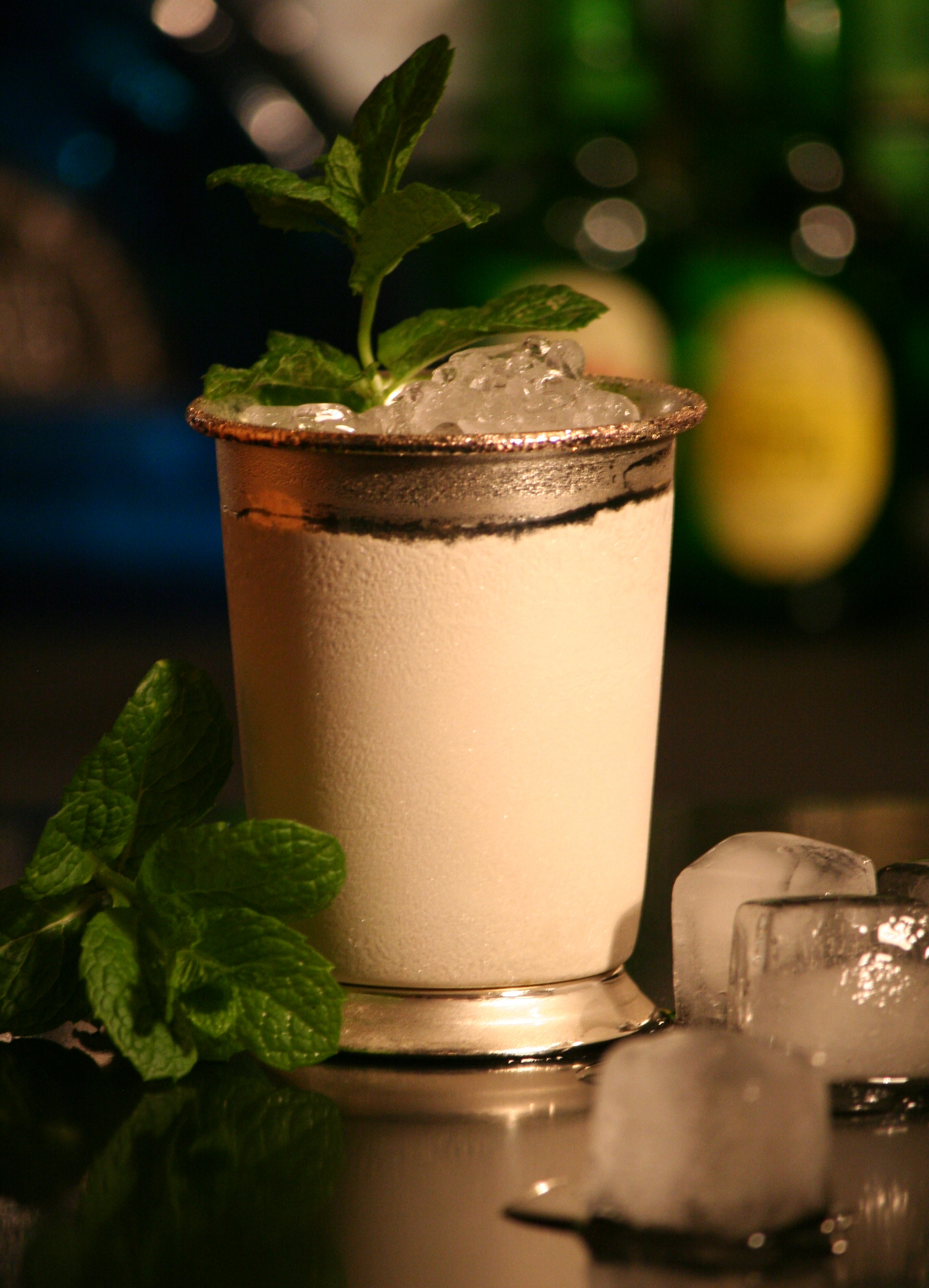 Mint Julep served in a silver cup. The frosted surface of the cup is achieved by the use of crushed ice.